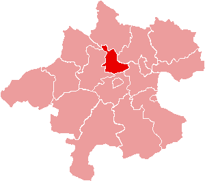 Location of Bezirk Eferding within the Land of Upper Austria